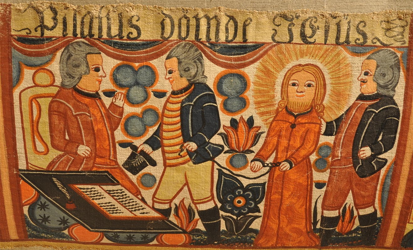 Part of wall tapestry made by Johannes Nilsson from Unnaryd museum